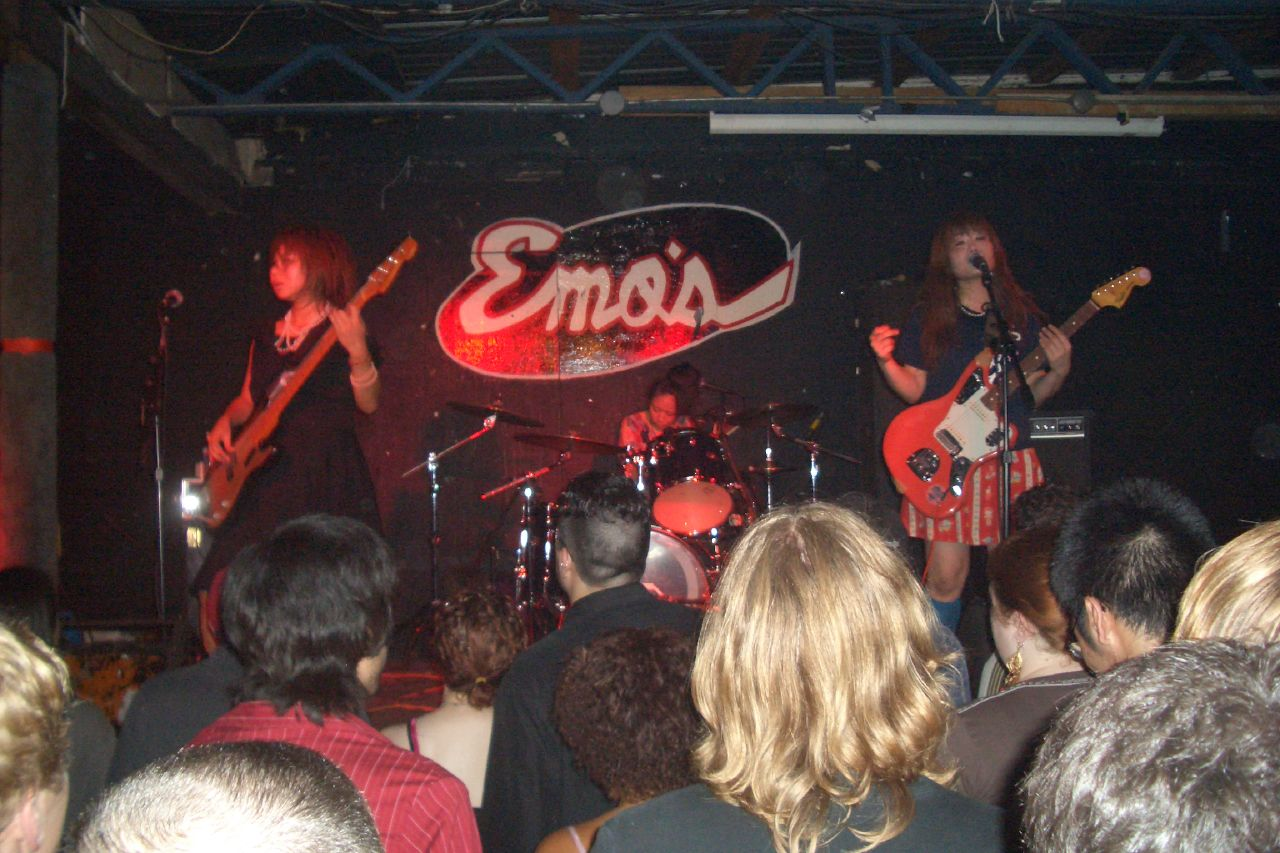 Based on the album description I believe this is "Tsu Shi Ma Mi Re"